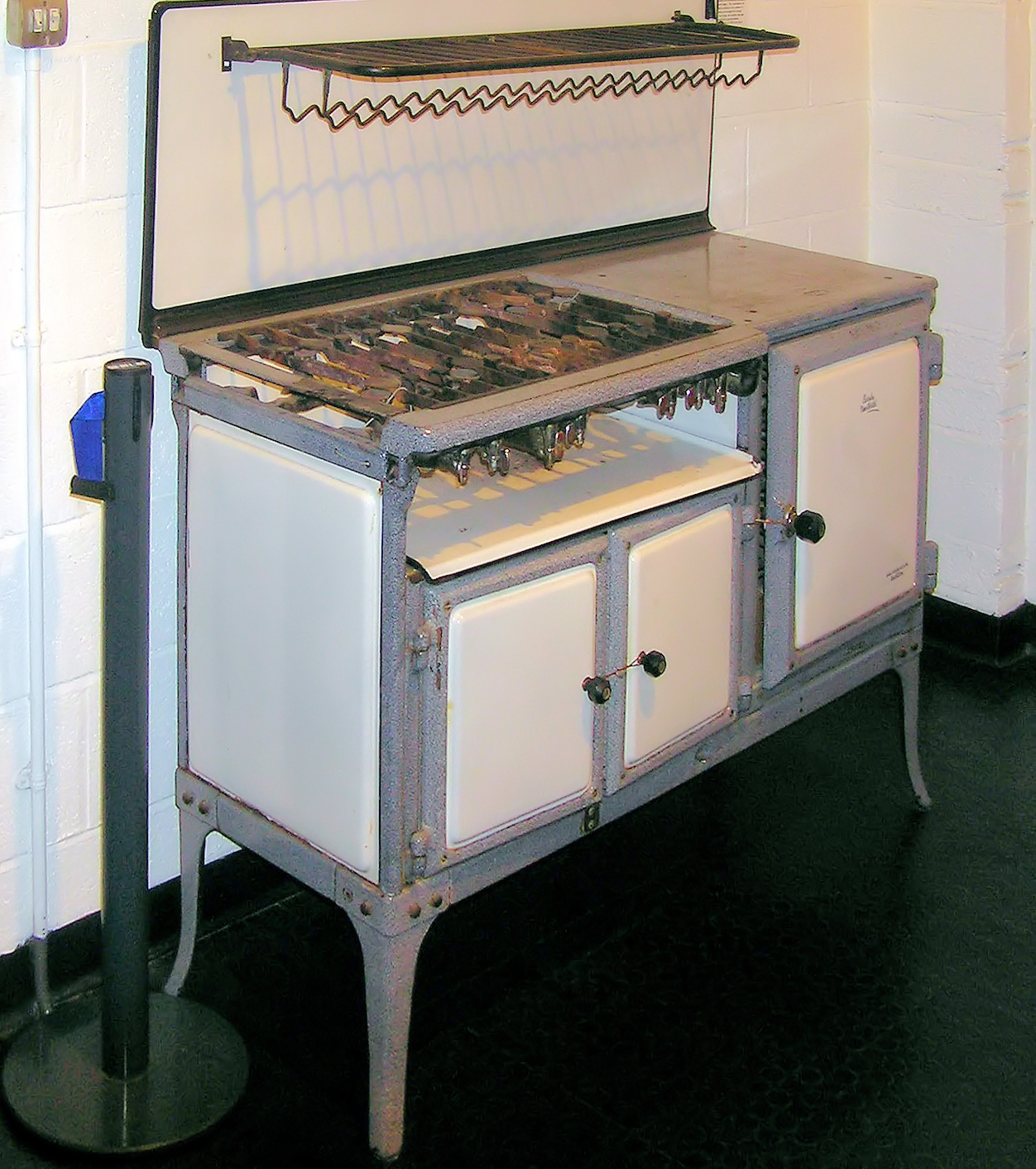 Gas cooker of 1934 in the Bristol Industrial Museum, Bristol, England. (In 2007 the Bristol Industrial Museum was permanently closed for conversion to the Museum of Bristol. The exhibits are in storage.) Photographed by Adrian Pingstone in June 2004 and released to the public domain.